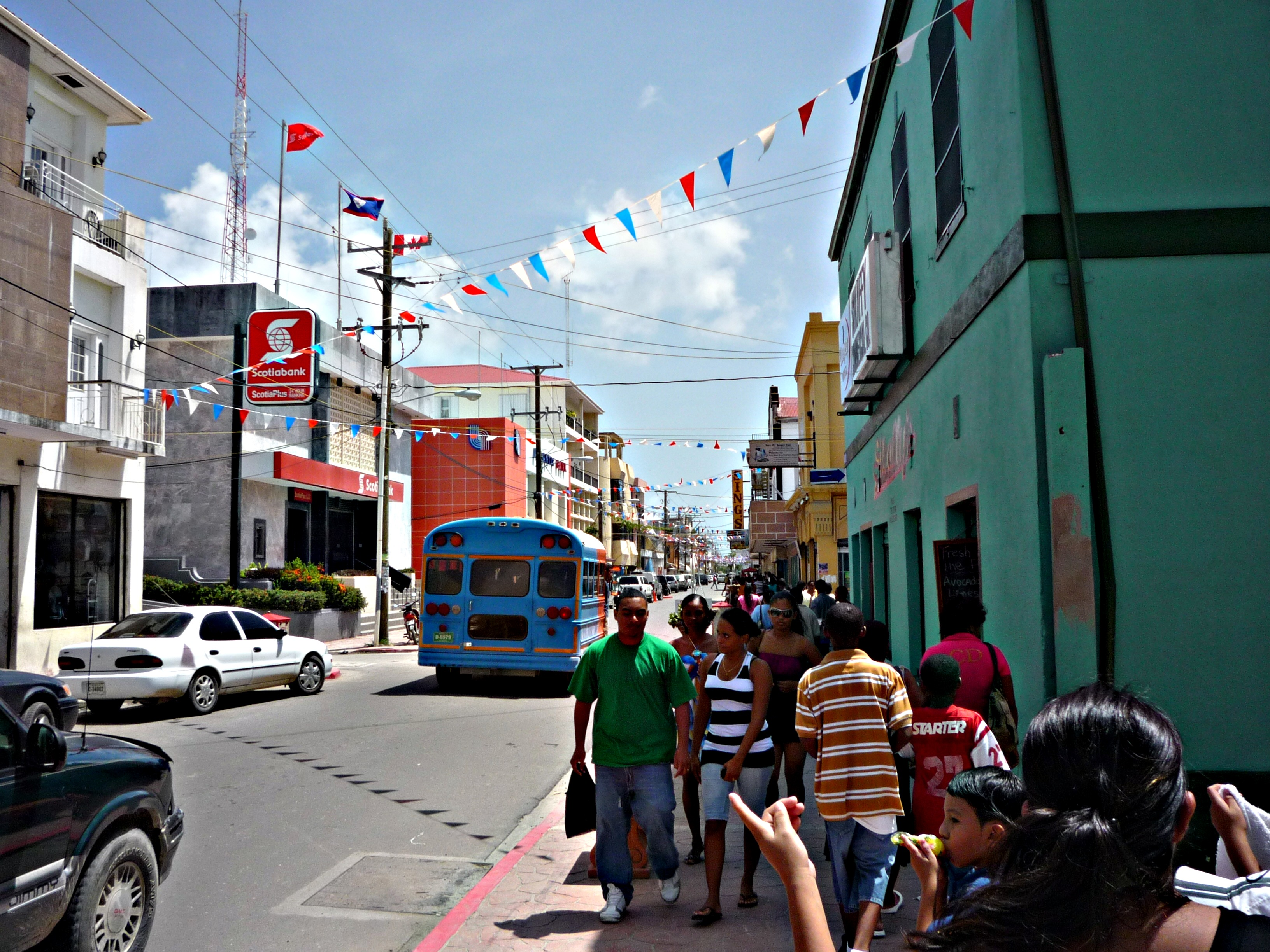 Albert Street, Belize City, Belize